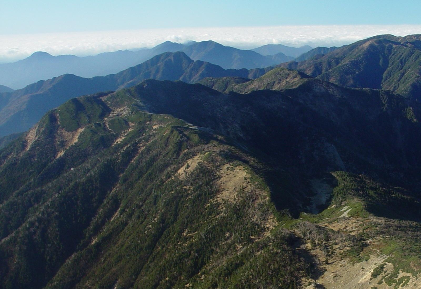 Mount Chausu from Mount Kamikōchi